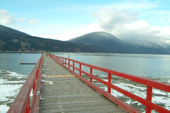 Canoe, BC, Canada wharf in winter